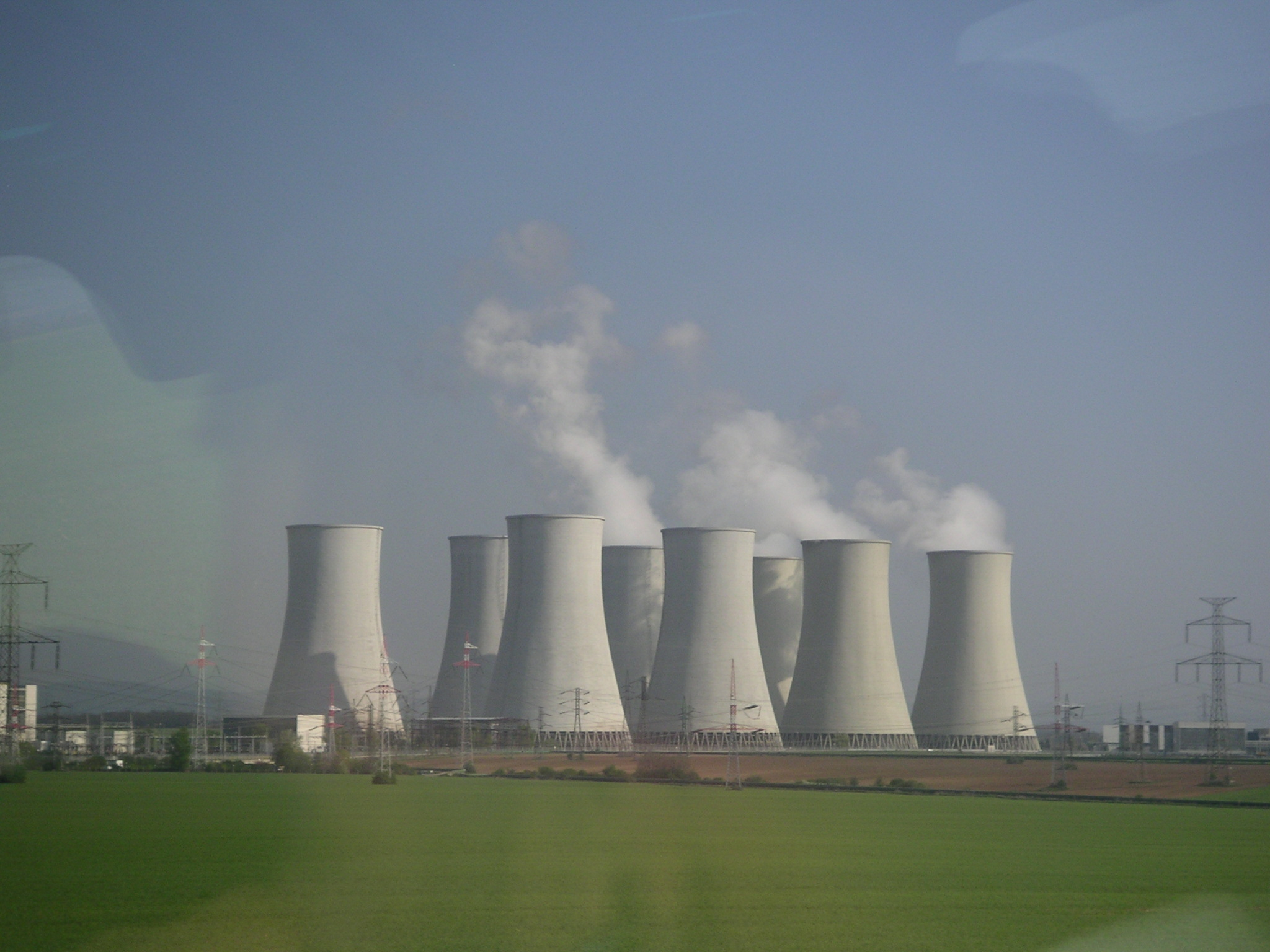 Cooling towers of Bohunice NPP (V1 on the left and V2 on the right)